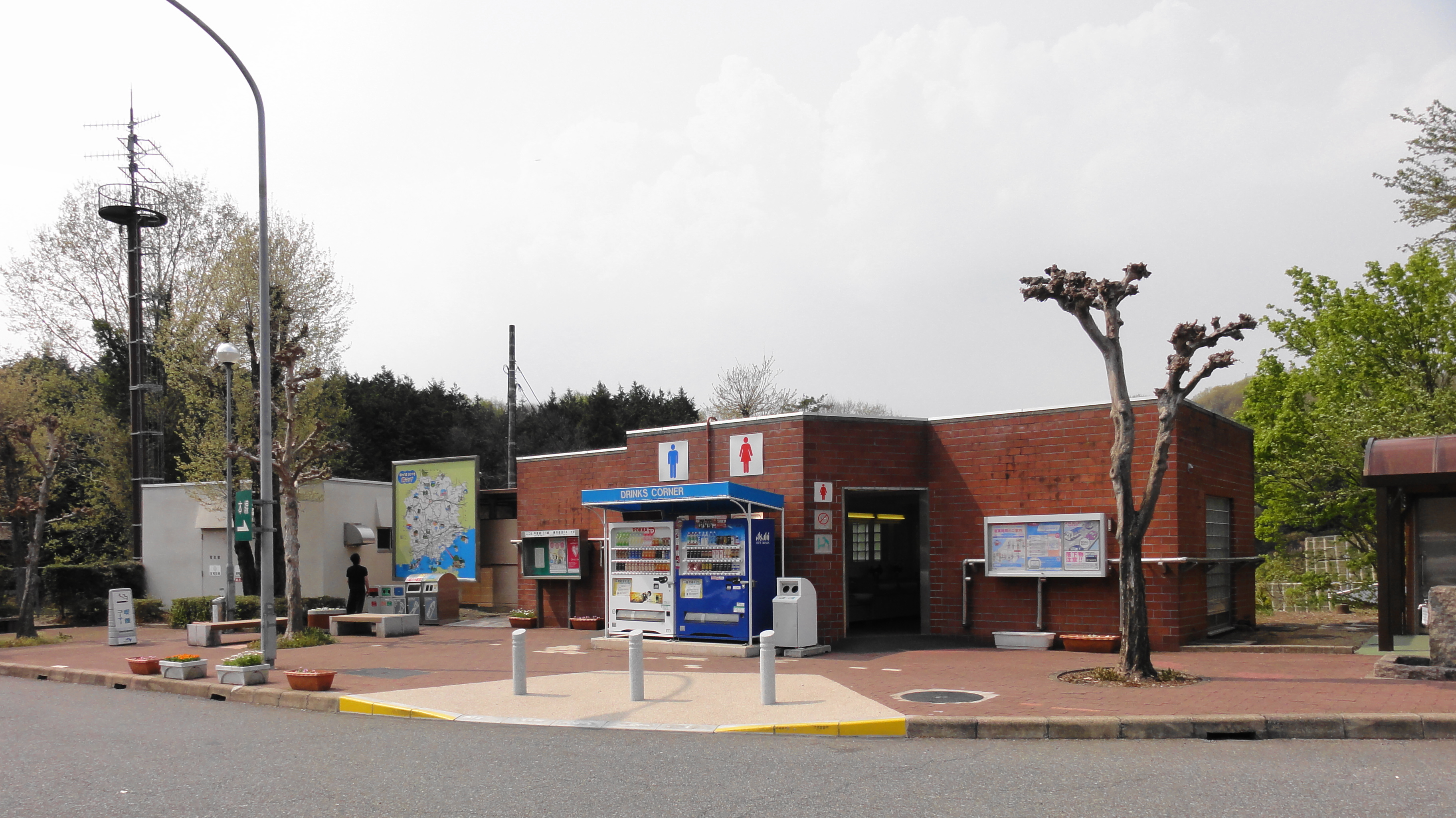 Mimasaka-oiwake Parking Area,Okayama prefecture,Japan